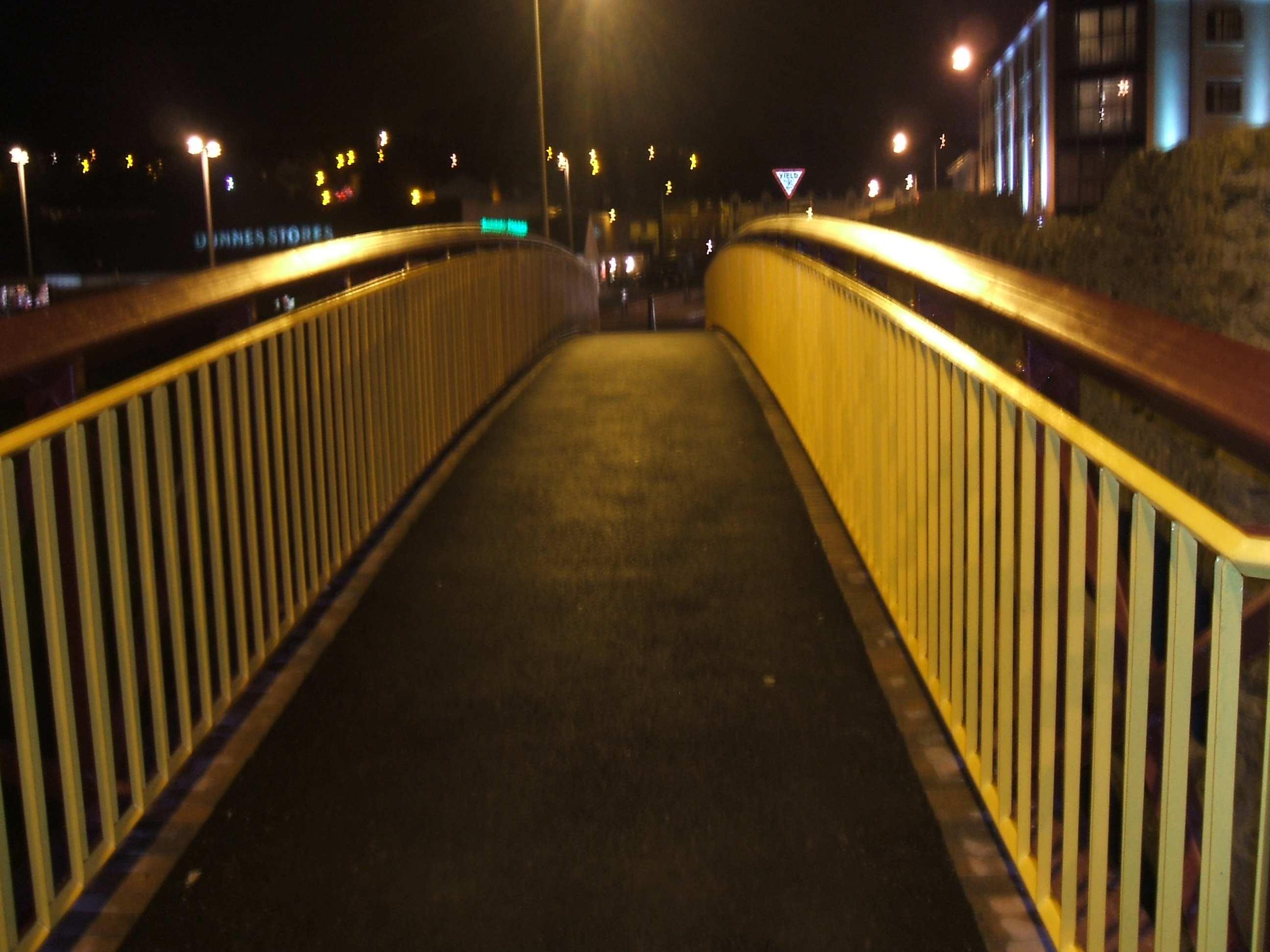 Taken by myself with my digital camera